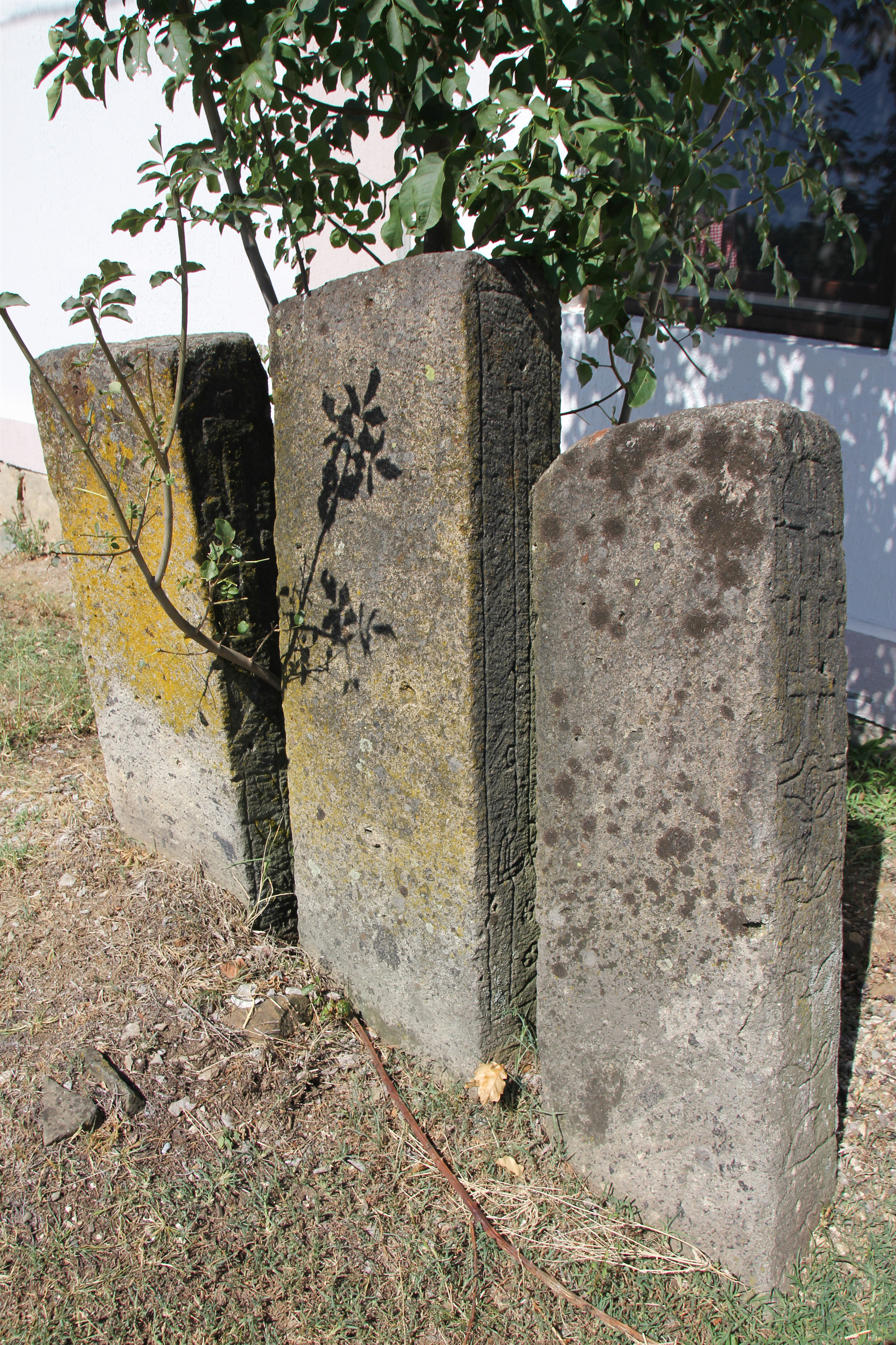 Three roadside tombstones in the village of Trudelj (the municipality of Gornji Milanovac), Serbia.